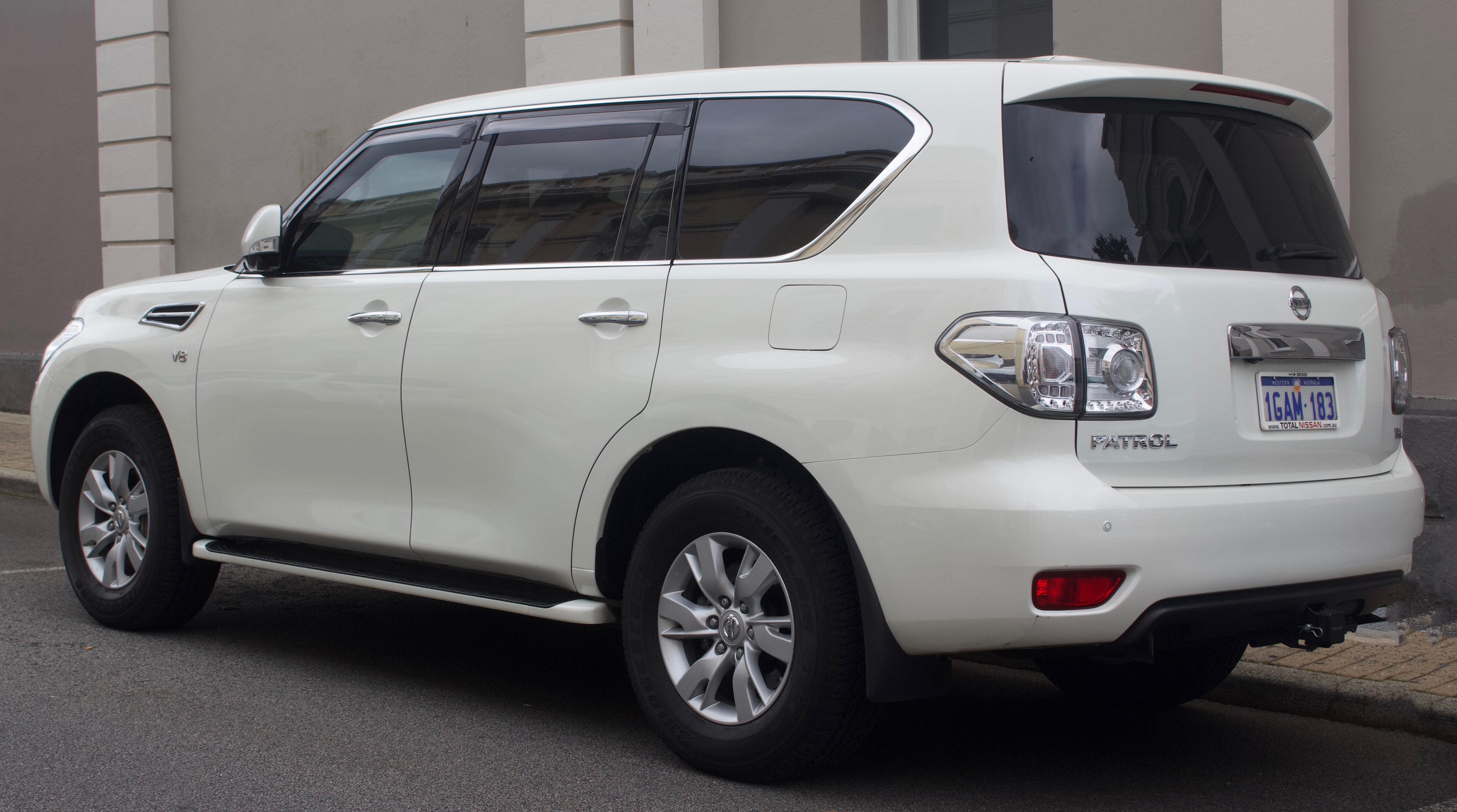 2016 Nissan Patrol (Y62) Ti-L wagon. Photographed in Fremantle, Western Australia, Australia.